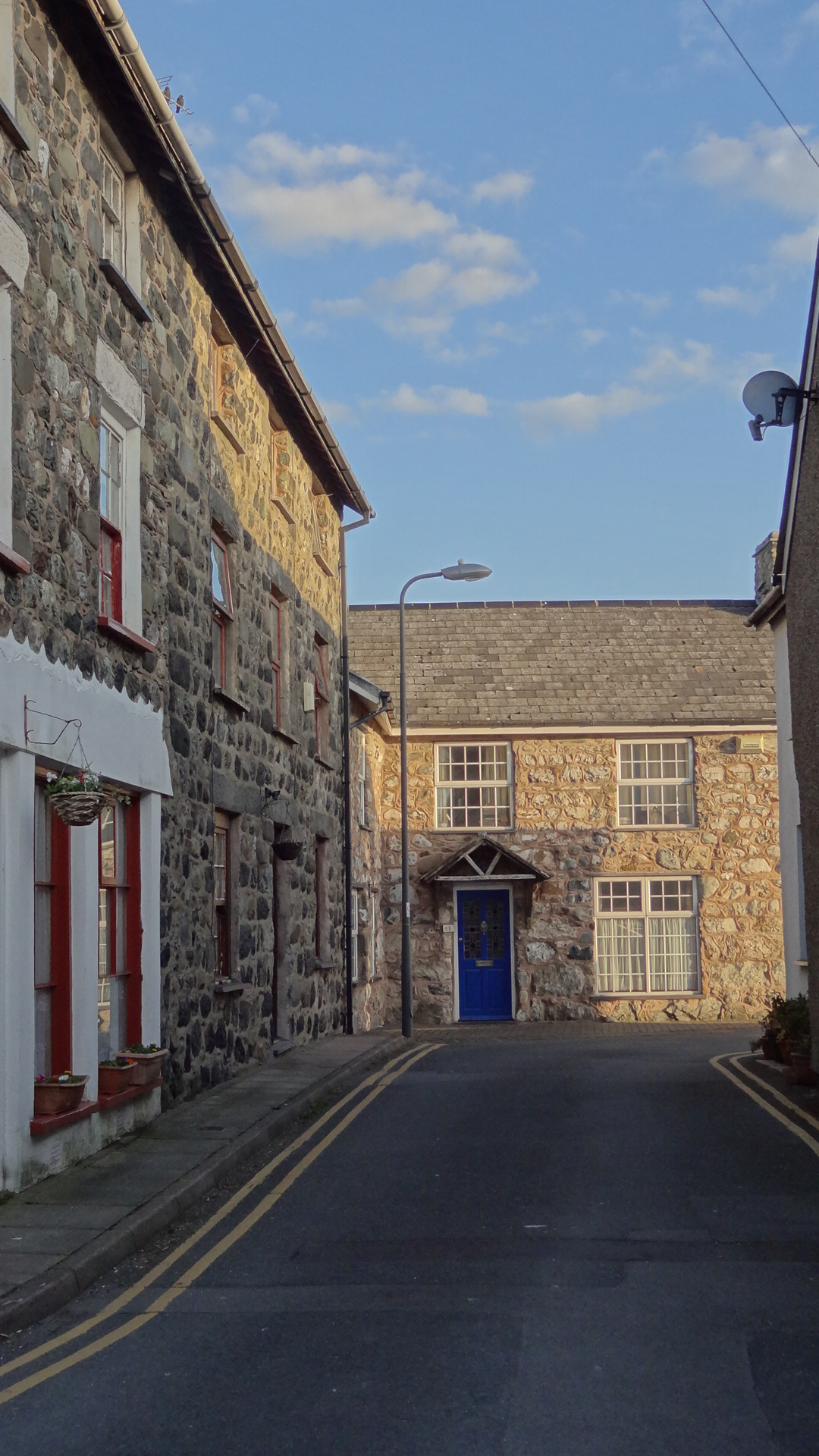 Red Lion St and Stanley House